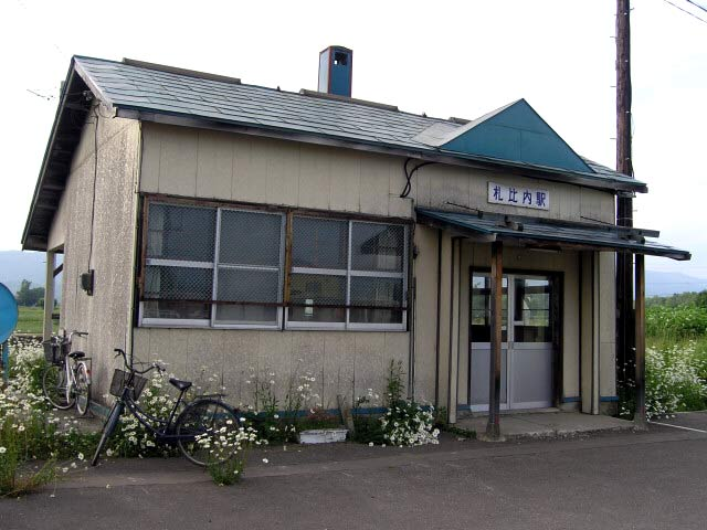 Sappinai Station on the Sasshō Line, Japan